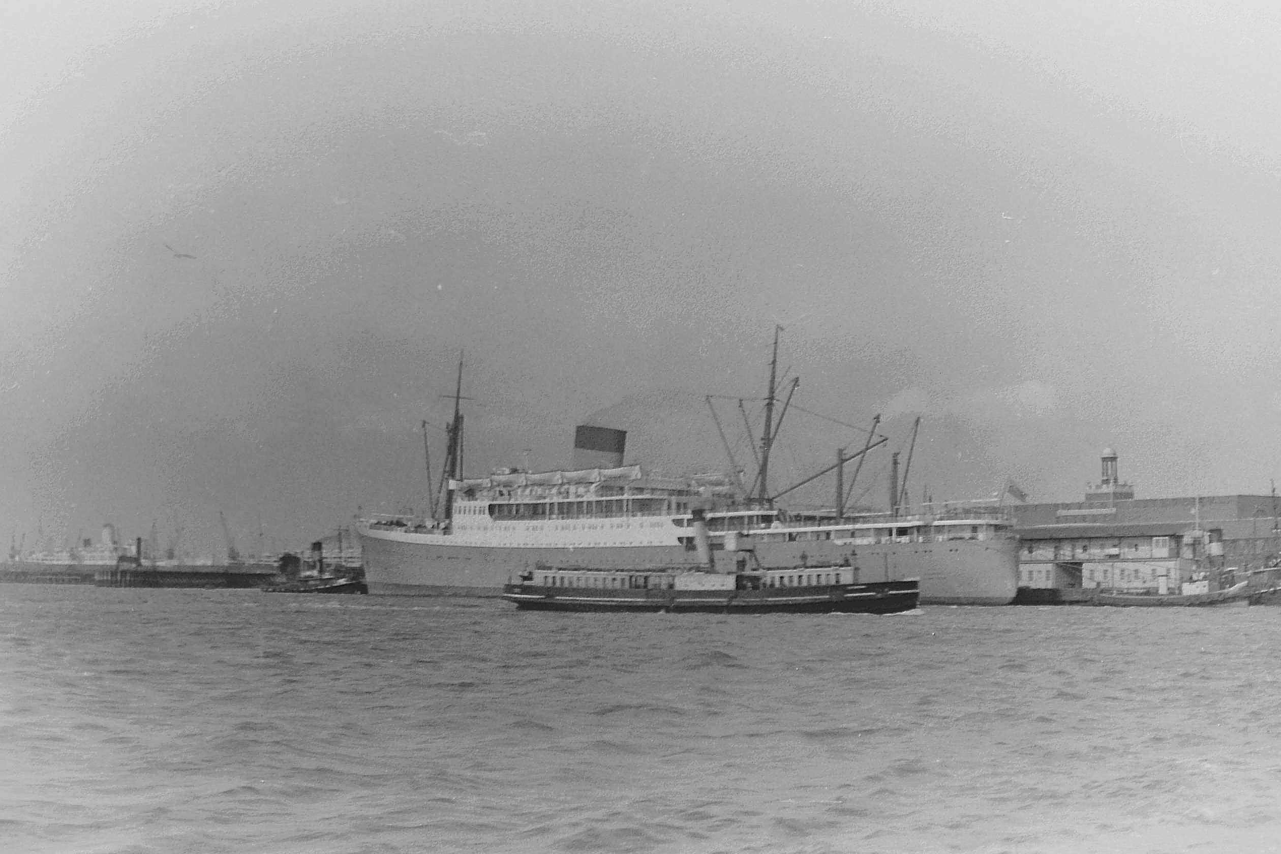 Kenya Castle. Union Castle Line At Tilbury Landing Stage 1954